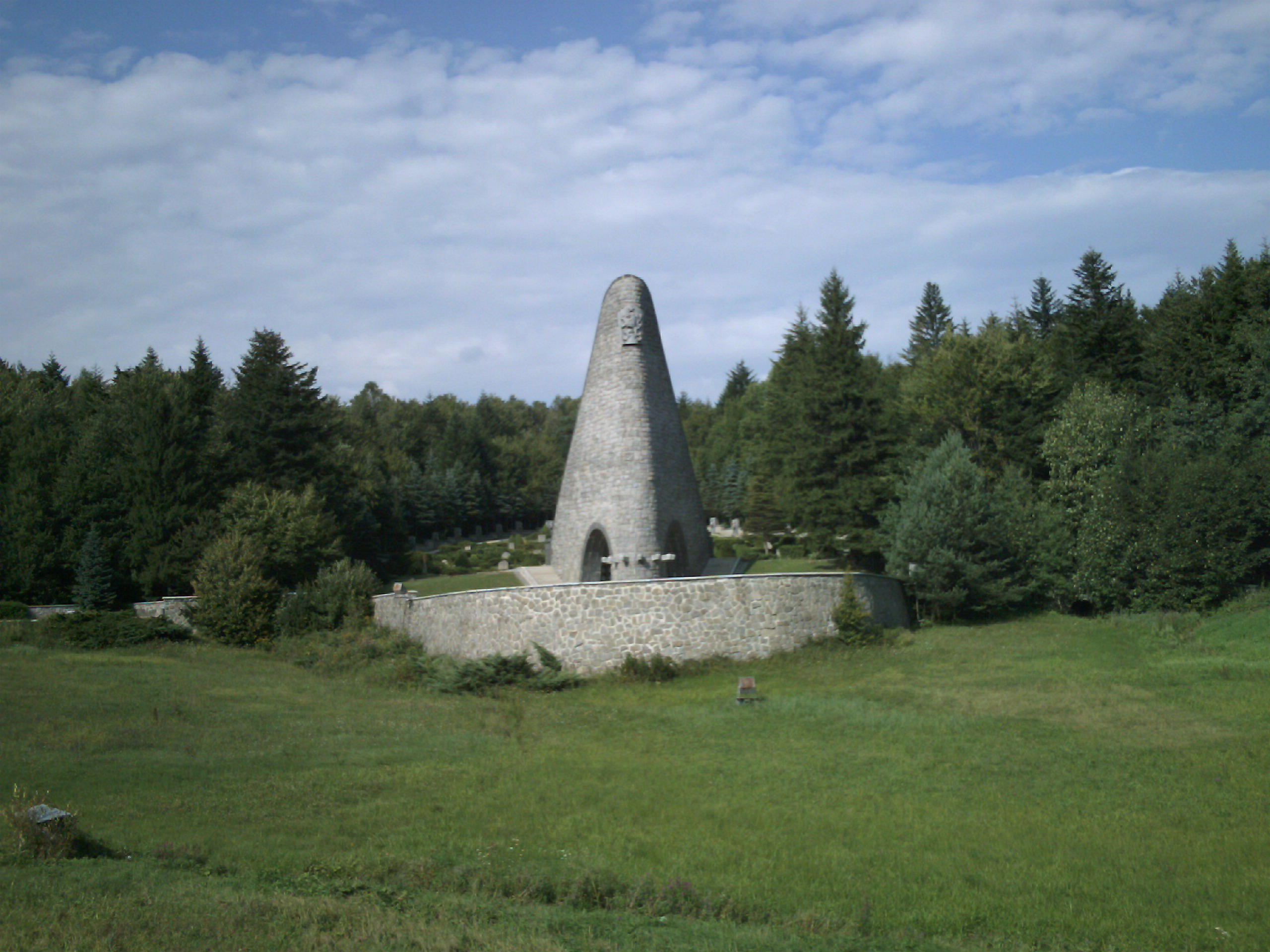 Monument in Dukla´s pass, Slovakia